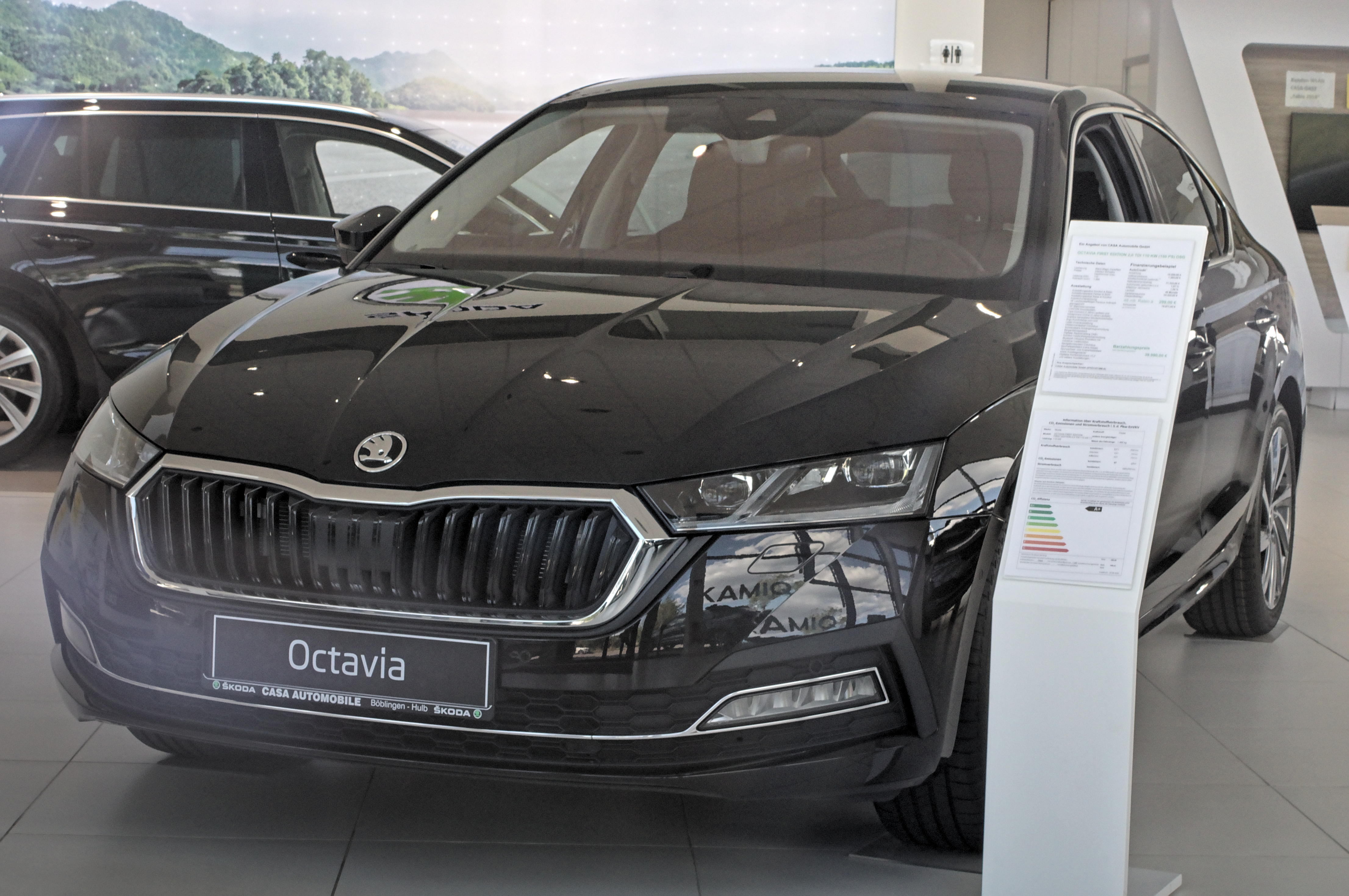 Skoda_Octavia_IV in Böblingen